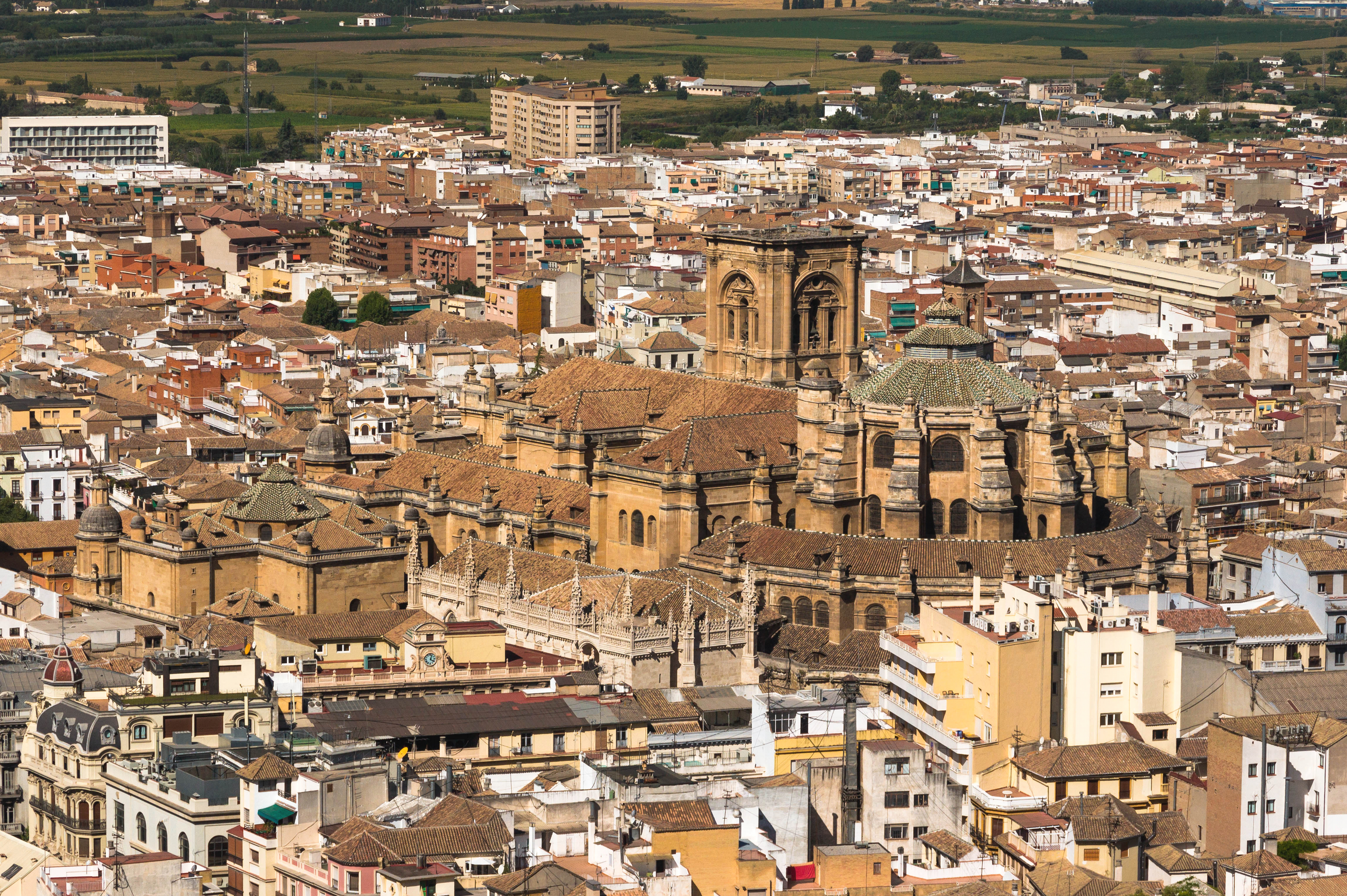 Cathedral and "Capilla Real", roofs of Granada, Spain.